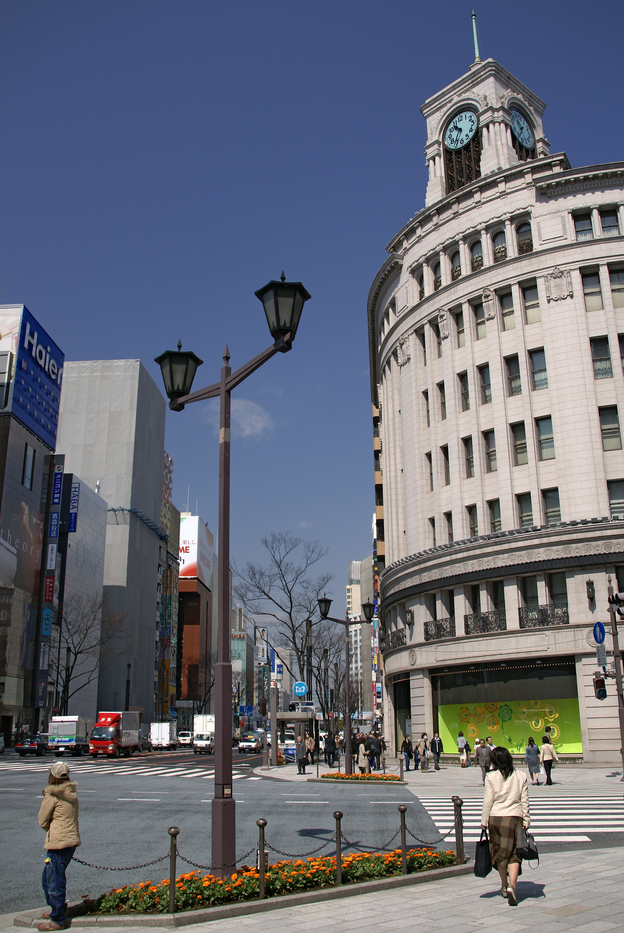 Wako Department Store in Ginza, Chūō, Tokyo, Japan